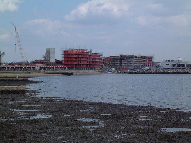 Lower Hamworthy. In line with the current trend for building flats near open water, these buildings are currently under construction in Lower Hamworthy with a view over Poole Harbour.